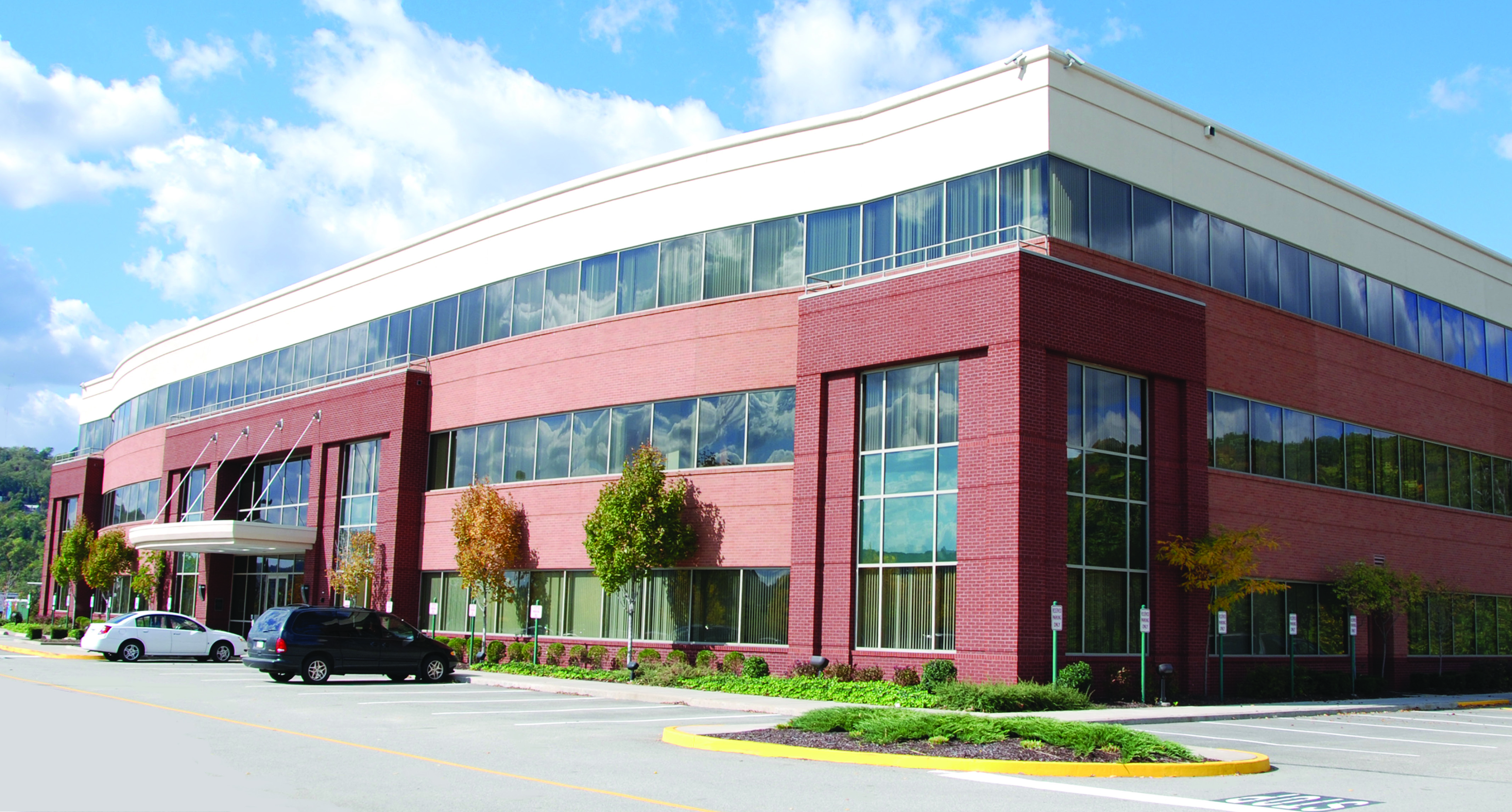 Central Offices located in Homestead, PA